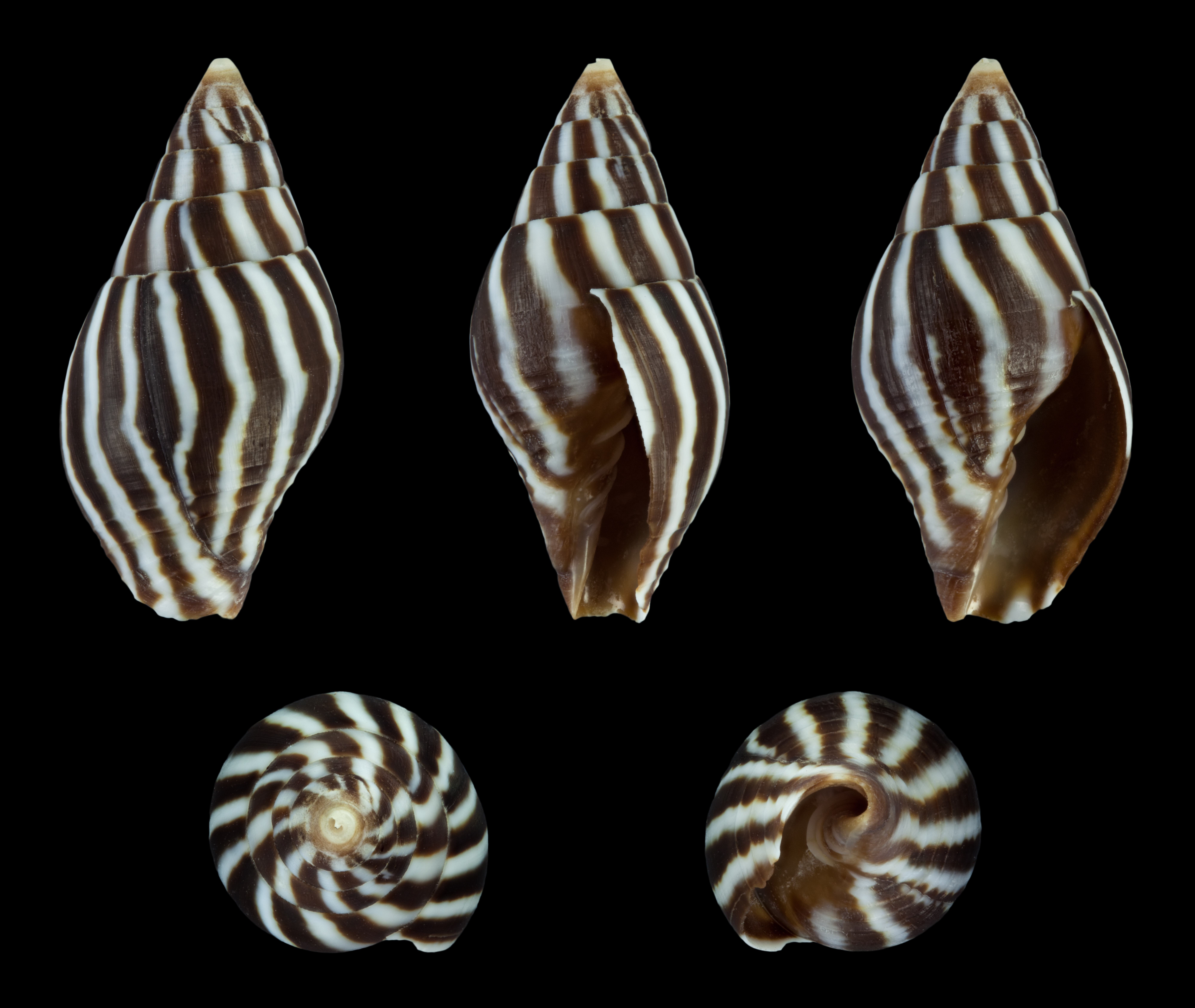 Strigatella paupercula (Linné, 1758), Poor Mitre; Length 2.1 cm; Originating from Bohol, Philippines; Shell of own collection, therefore not geocoded.